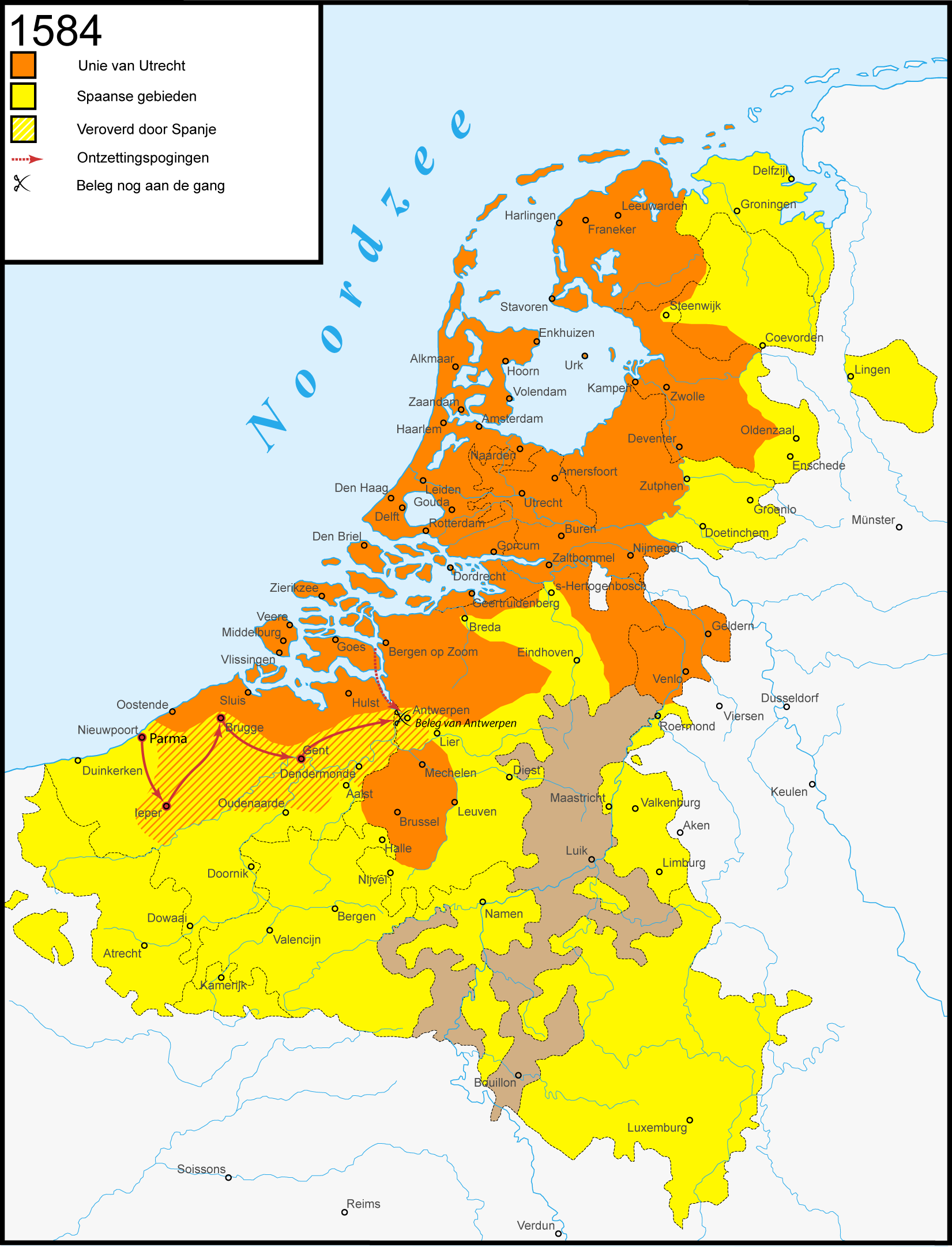 Warprogression in het Eighty Years' War: 1584. Dutch version